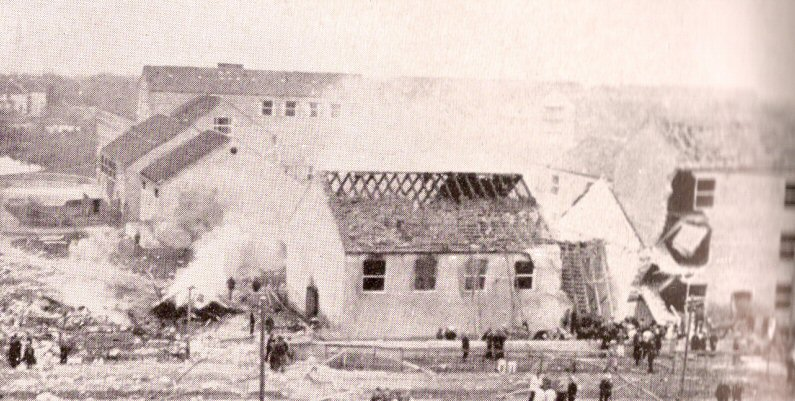 RAF Attack on Aarhus University Gestapo headquarters 31 October 1944